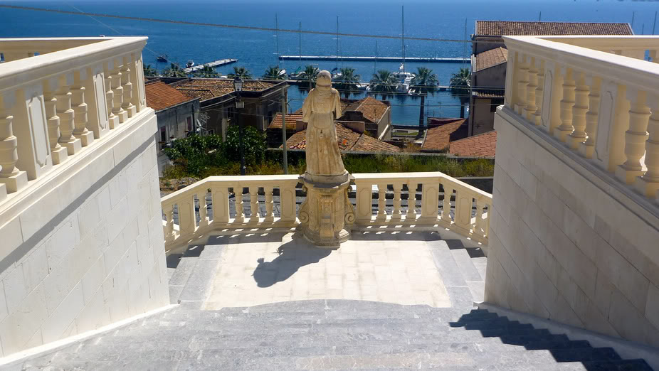 Milazzo